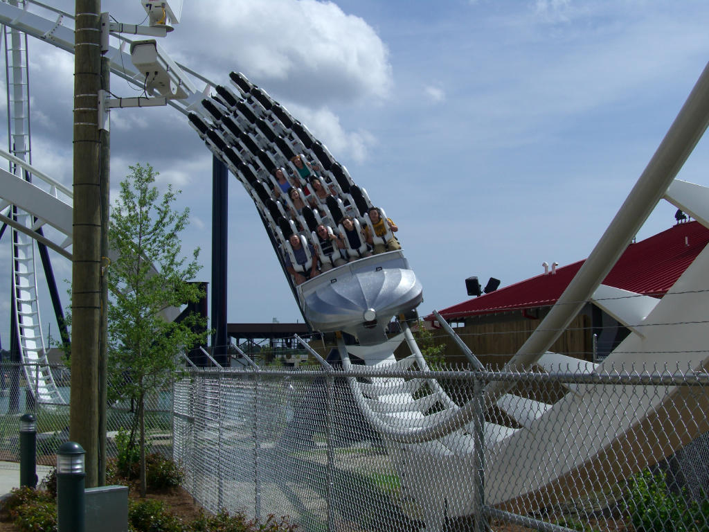 Led Zeppelin - The Ride at Hard Rock Park (Note: This is not the full quality image, if you would like to use a higher quality image for a publication, contact me)